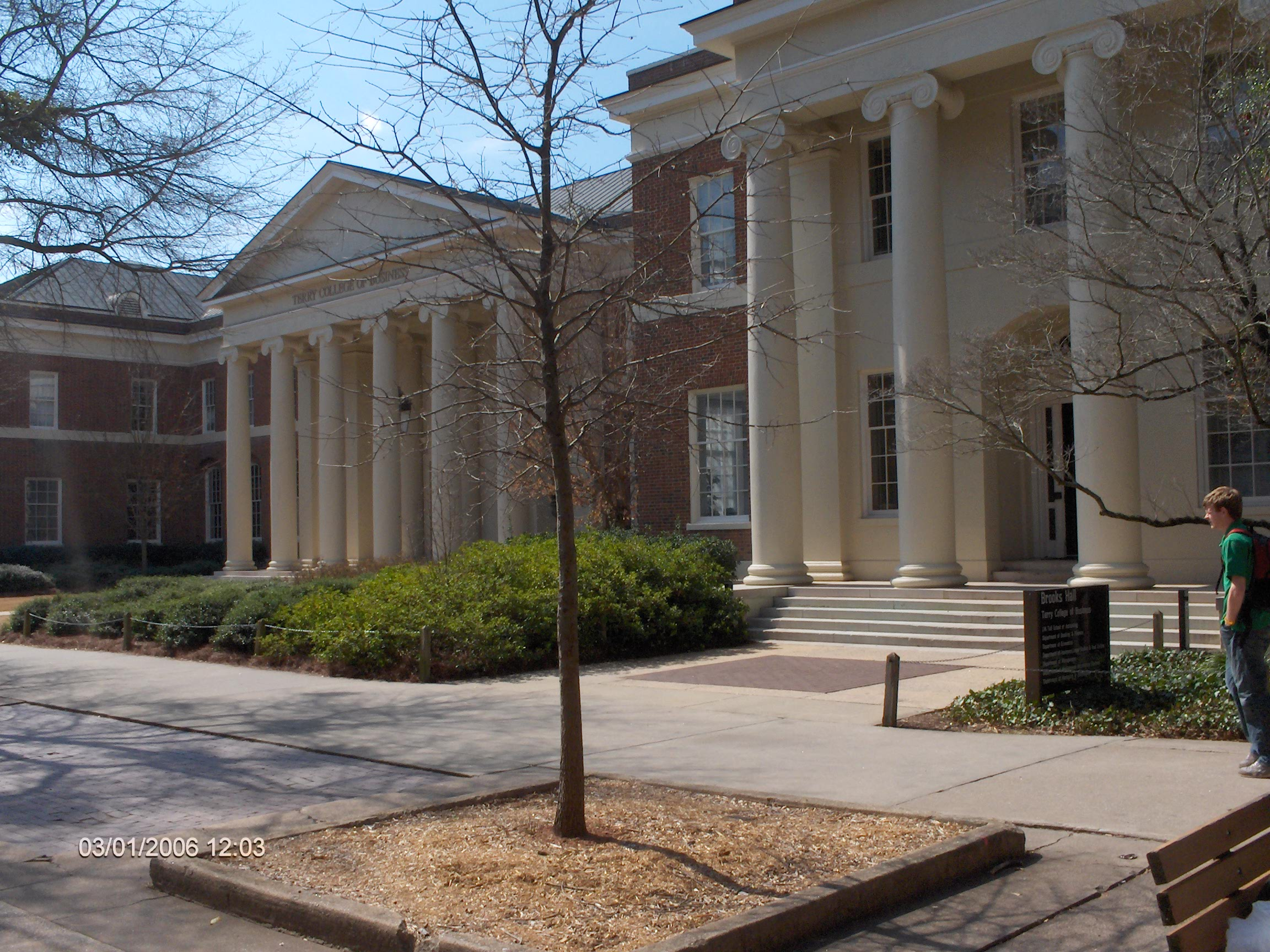 Photograph by: Fred Maidment (me) Location: UGA North Campus, Brooks Hall (Terry College of Business), Athens, GA , Brooks Hall